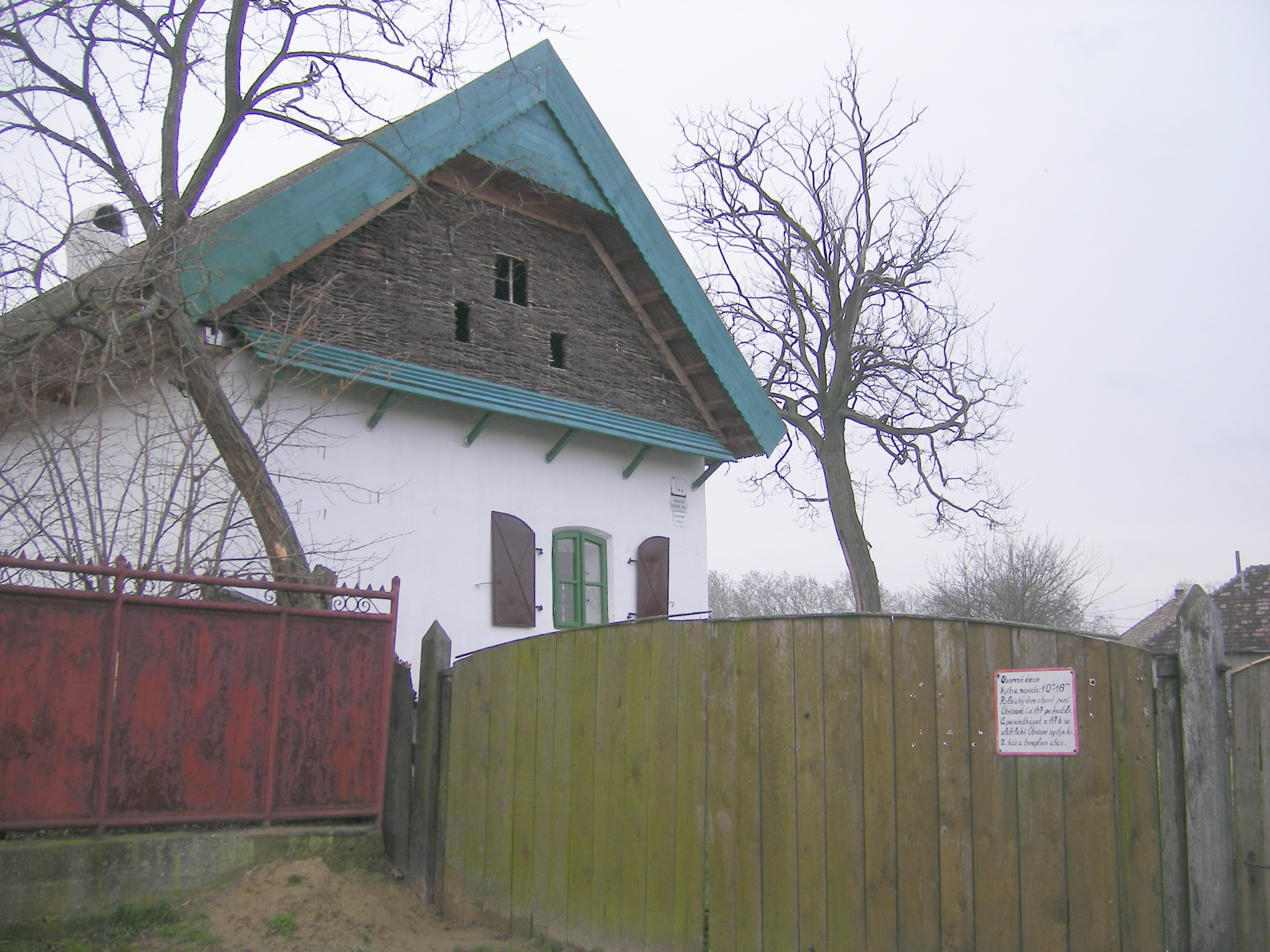 Martos (Martovce) - village museum